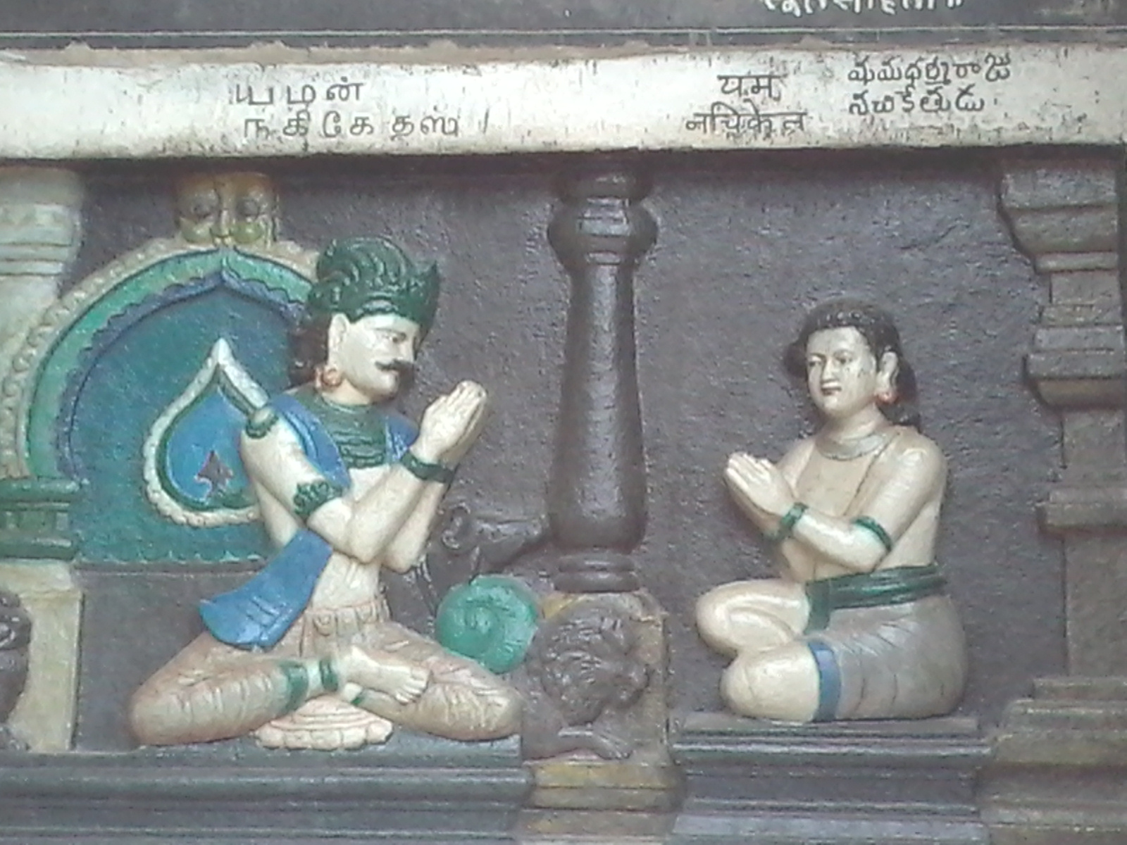 Lord Yama teaches about atman to Nasiketha